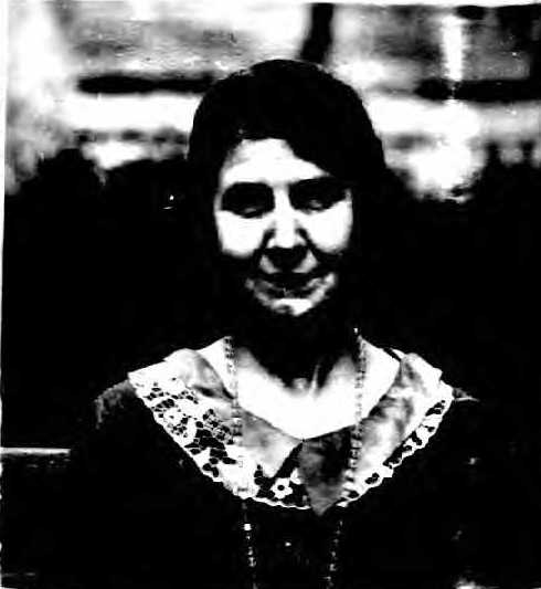 U.S. Passport Applications, 1795-1925 Passport Applications, January 2, 1906 - March 31, 1925 1924 Roll 2553 - Certificates: 433850-434349, 05 Jun 1924-05 Jun 1924